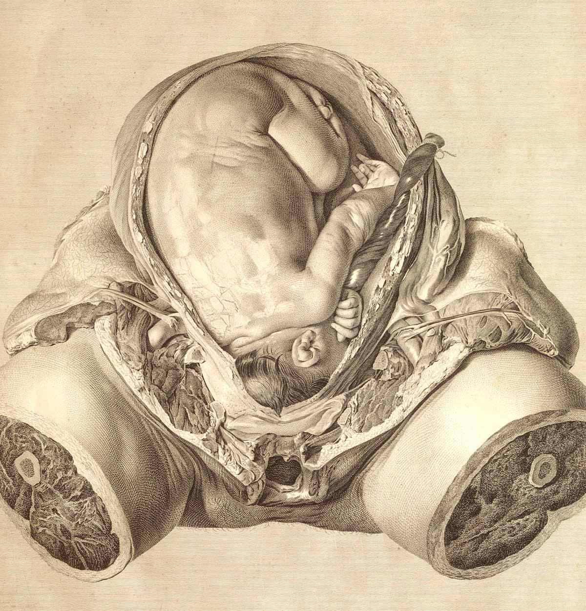 Anatomy of late pregnancy. Plate VI of William Hunter's 1774 book The Anatomy of the Human Gravid Uterus. Copperplate engraving by Jan van Riemsdyk.